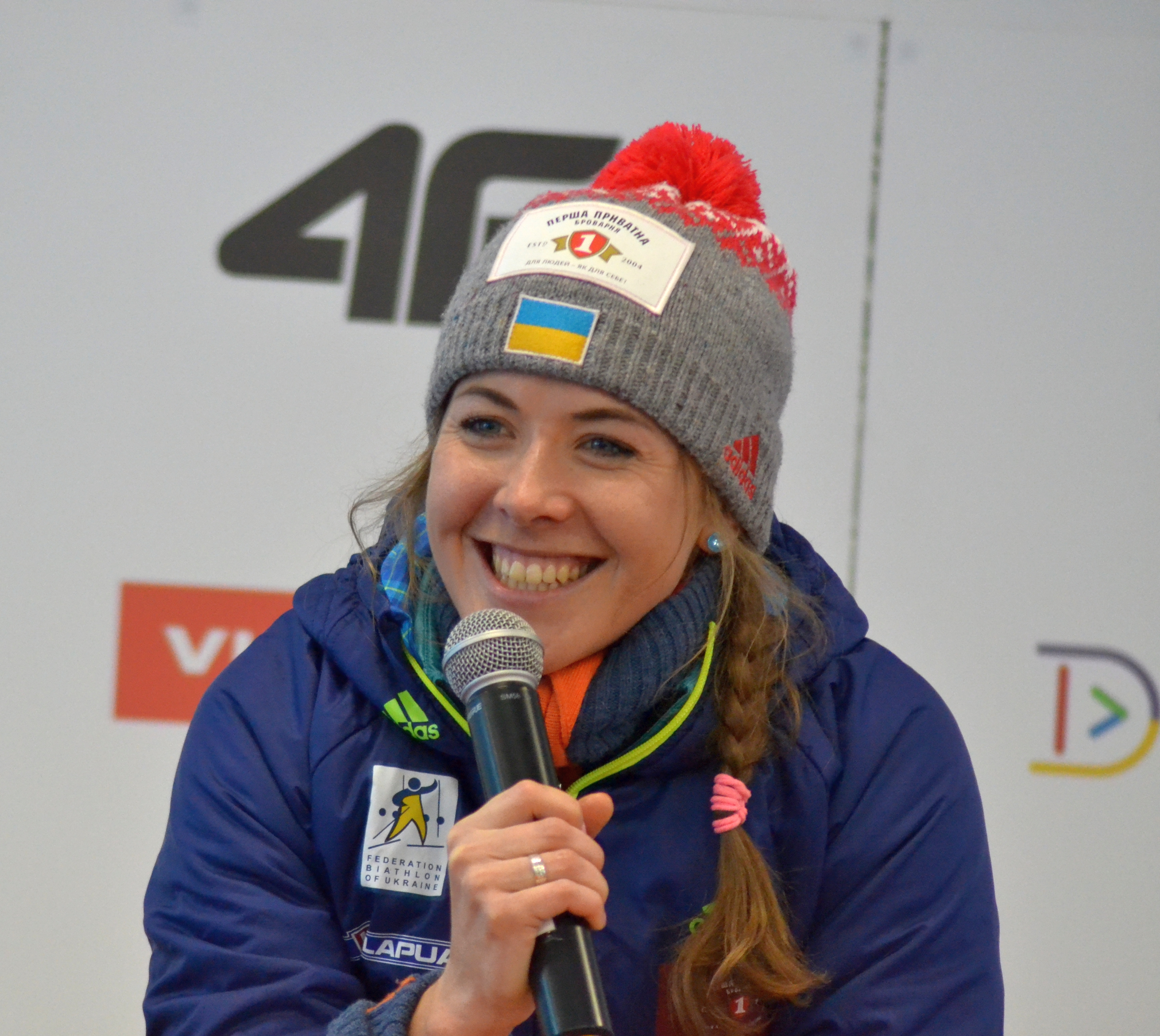 Juliya Dzhyma at the Open European Championships Biathlon 2017, Sprint Women's race, held on January 27th.